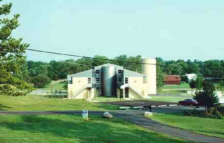 Fire Station 5 in Columbus, Indiana, designed by Susana Torre. The architect was selected through the Cummings Engine Foundation Program.